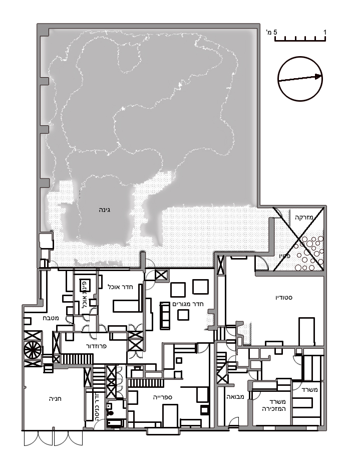 Ground floor plan: Luis Barragán House and Studio. Located in Mexico, D. F.